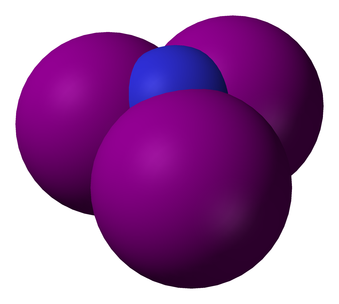 Space-filling model of the nitrogen triiodide molecule, NI3, based on this model